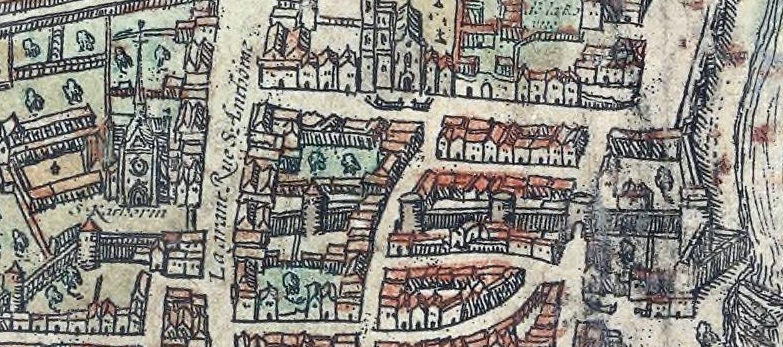 Enceinte de Philippe Auguste (detail quartier Saint-Paul) on the plan of Braun and Hogenberg (c.1530, published in 1572, edition of 1593).